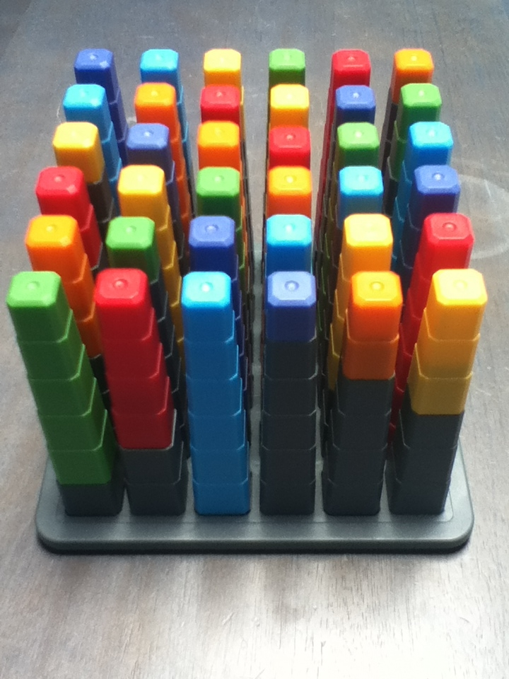 This is one of the possible solutions to the 36cube puzzle.